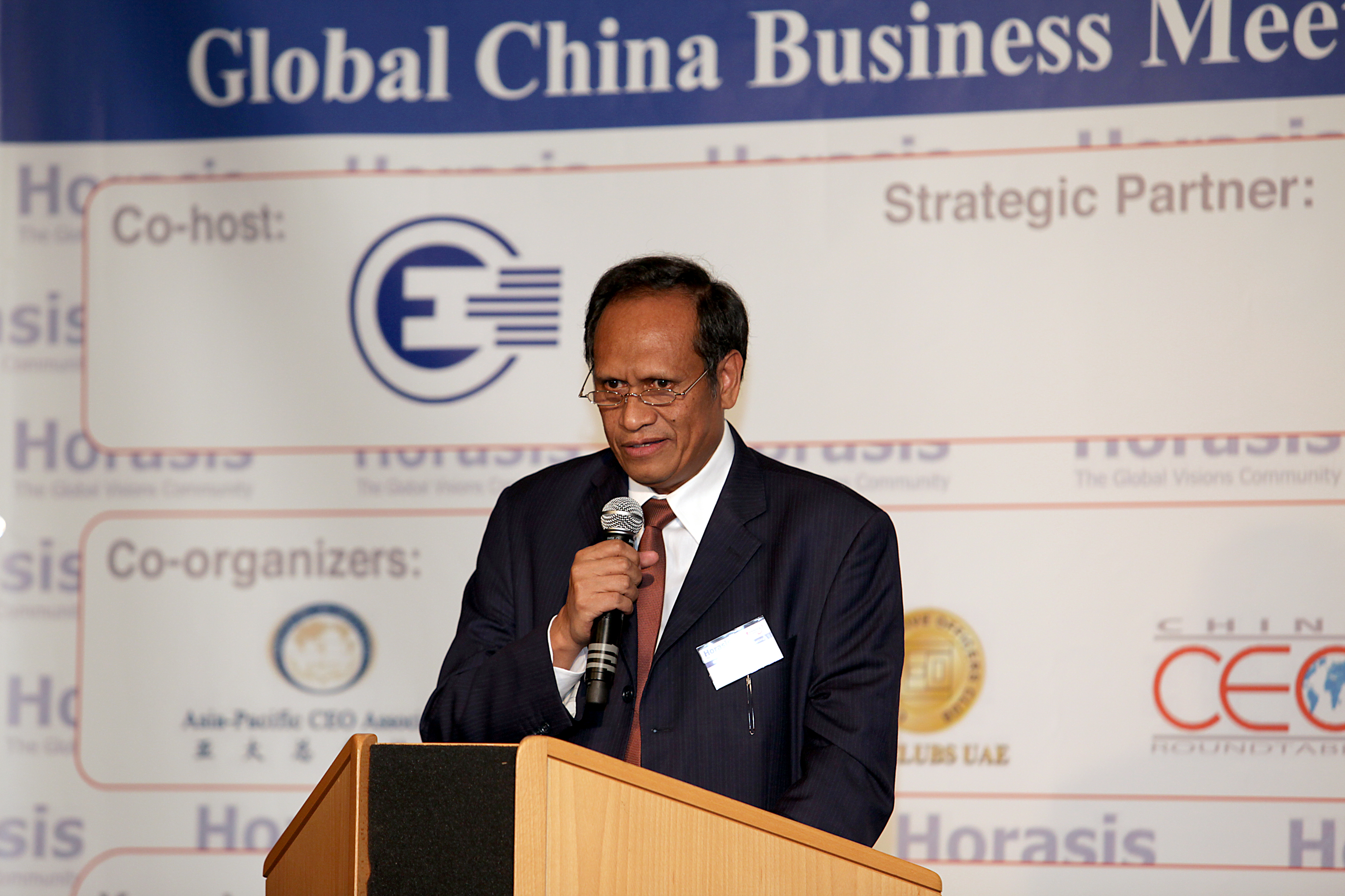 Jose Luis Guterres, Deputy Prime Minister, Timor-Leste